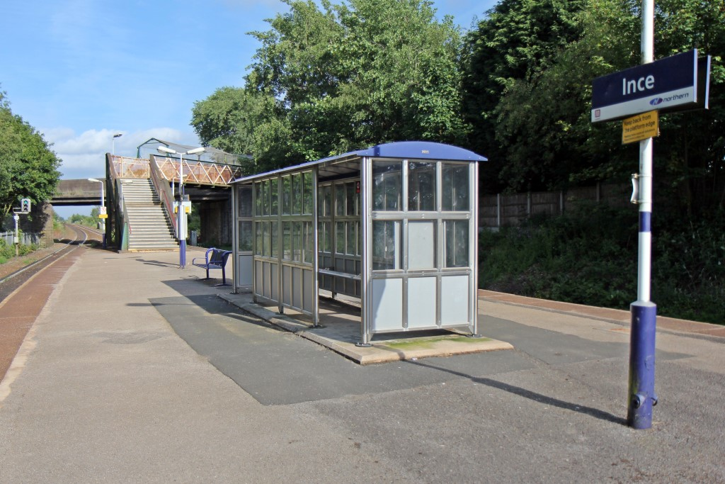 On the platform, Ince railway station